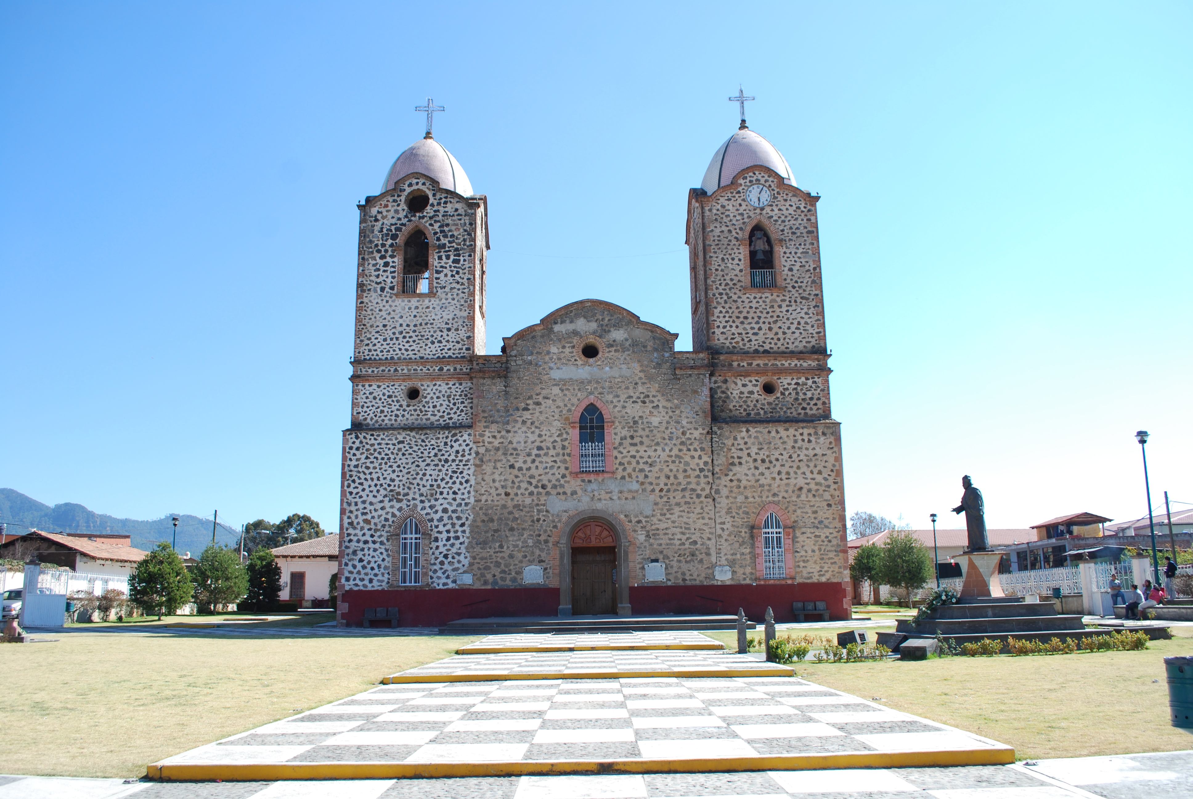 Facade of the parish church in Aporo, Michoacan